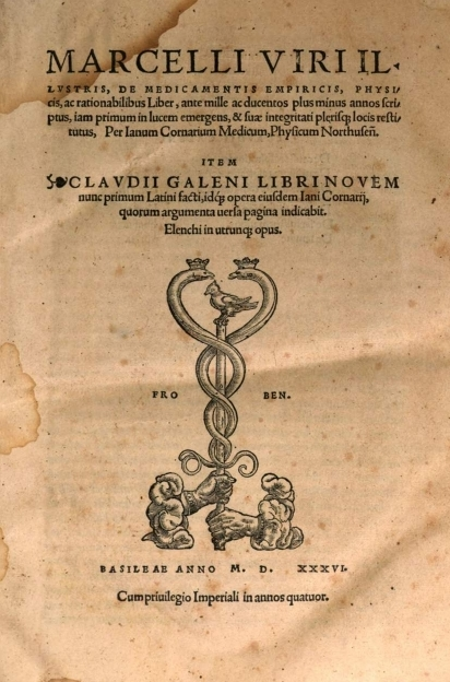 Marcellus, De medicamentis, ed. princeps, title page